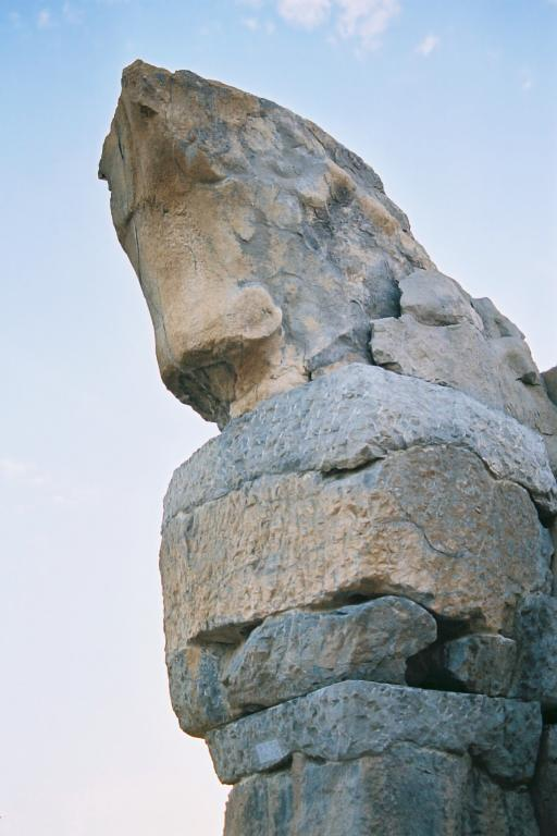 Bull head, from the Unfinished gate of Persepolis, Iran.